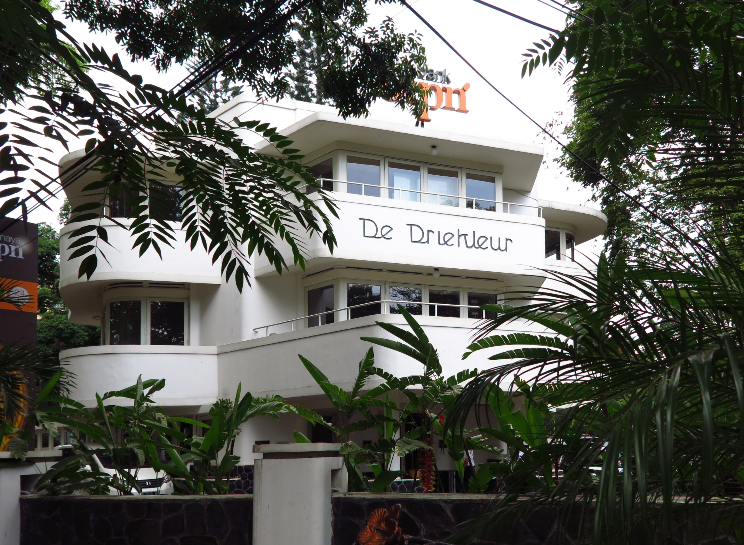 Bank BTPN, formerly De Driekleur, by Indies architect Albert Aalbers